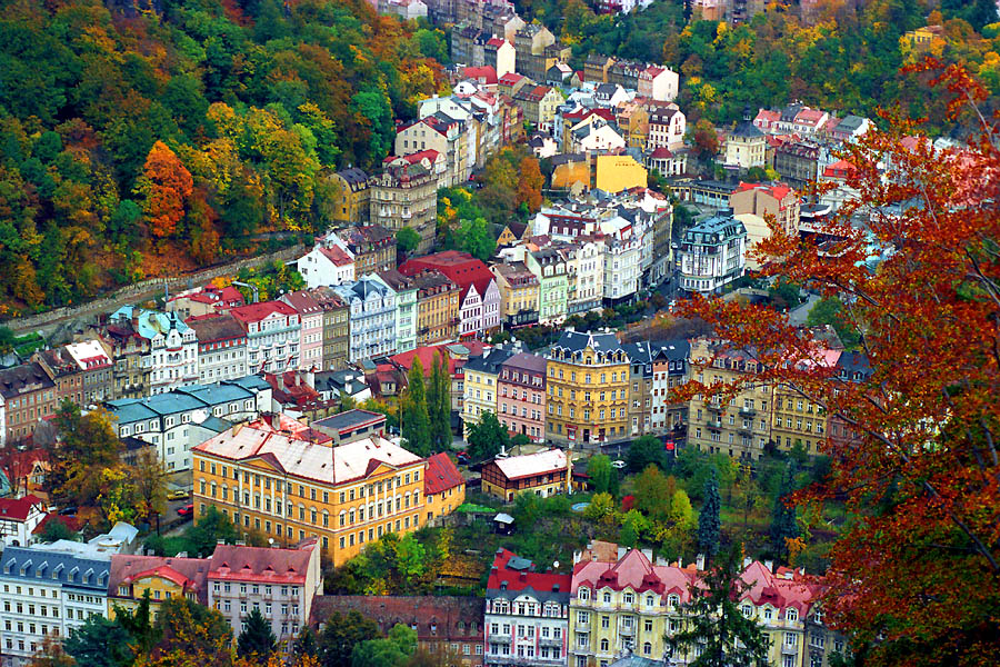 A Birdeye View of Karlovy Vary, Czech Rep.